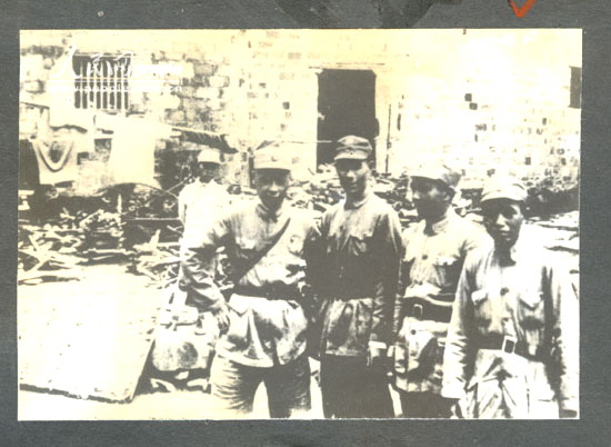 Leaders of Eight route and New Fourth Army.(Note:For unknown reason the eyes had been black out.)